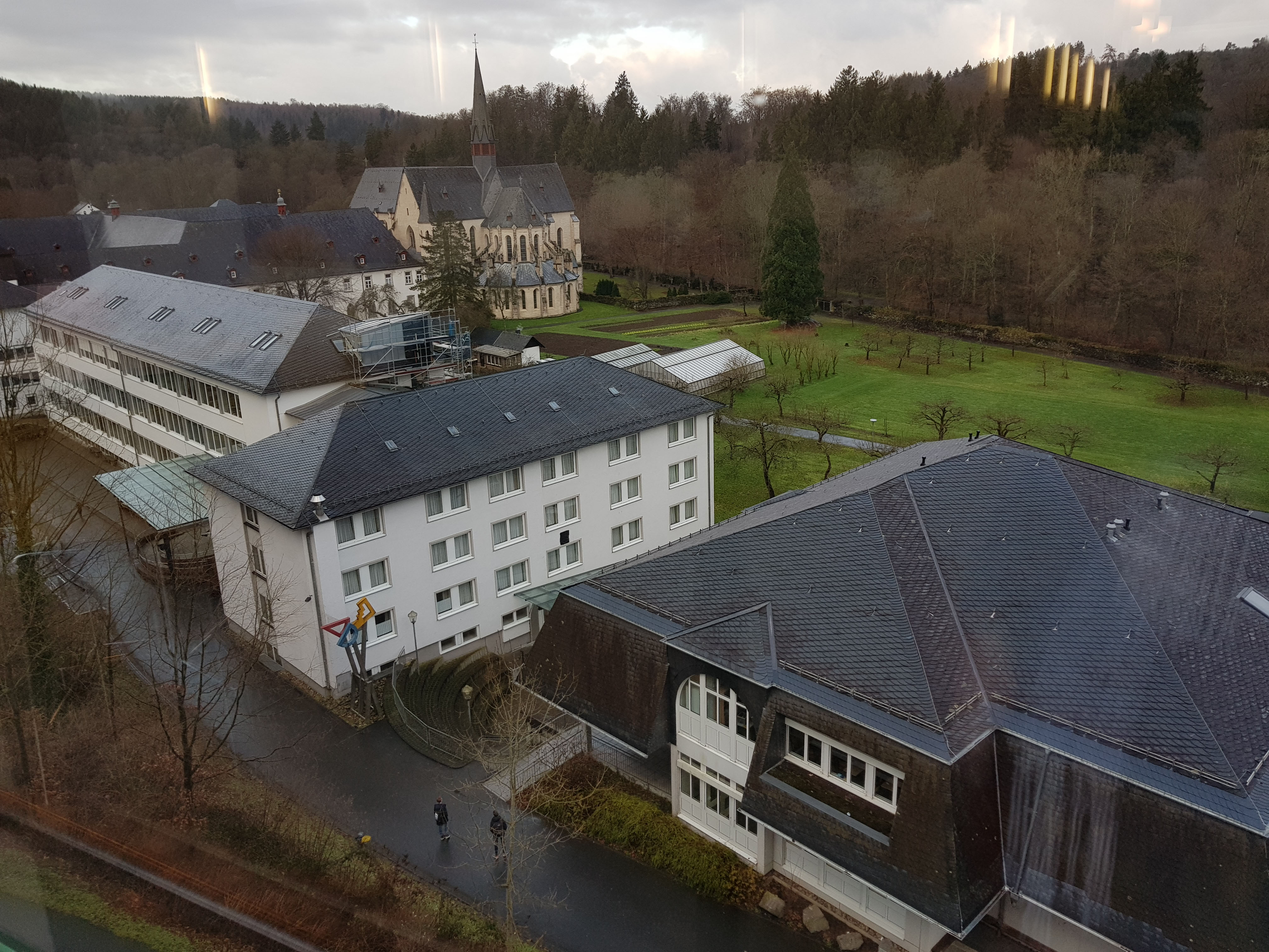 Das Marienstatter Klostertal vom Neubau (D-Trakt) des Gymnasiums